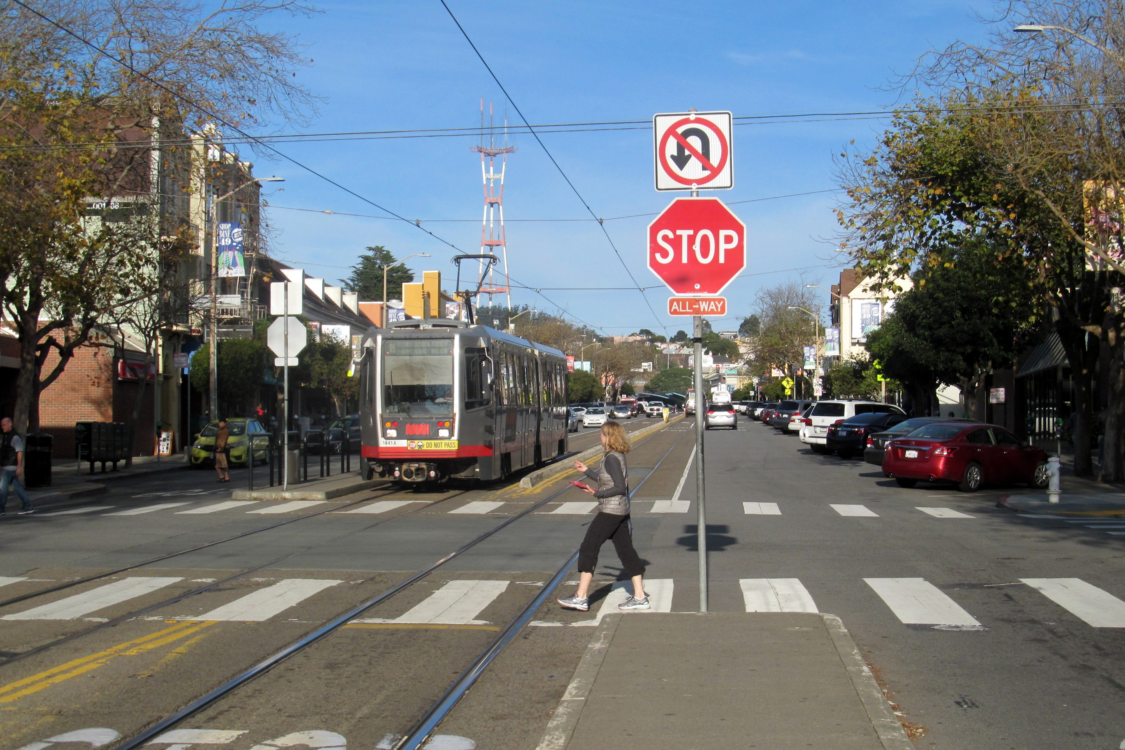 An outbound K Ingleside train on West Portal Avenue at 14th Avenue in December 2017